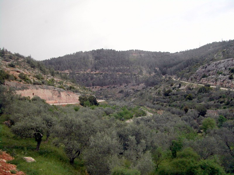 A view of Israeli countryside from a Jerusalem - Tel Aviv train.